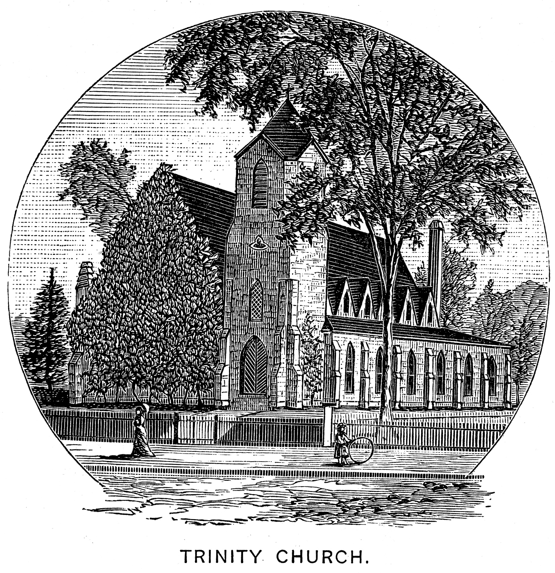 Trinity Church Pawtucket, engraving from The Providence Plantations for 250 Years, Welcome Arnold Greene (1886).